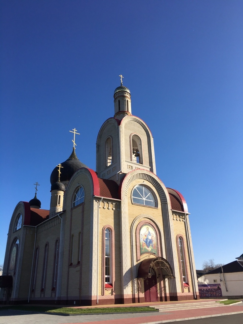 Hram v chest svyatogo cesarevicha Aleksiya